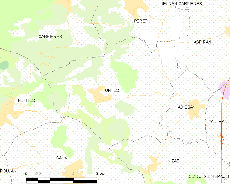 Map commune FR insee code 34103.png - Fontès